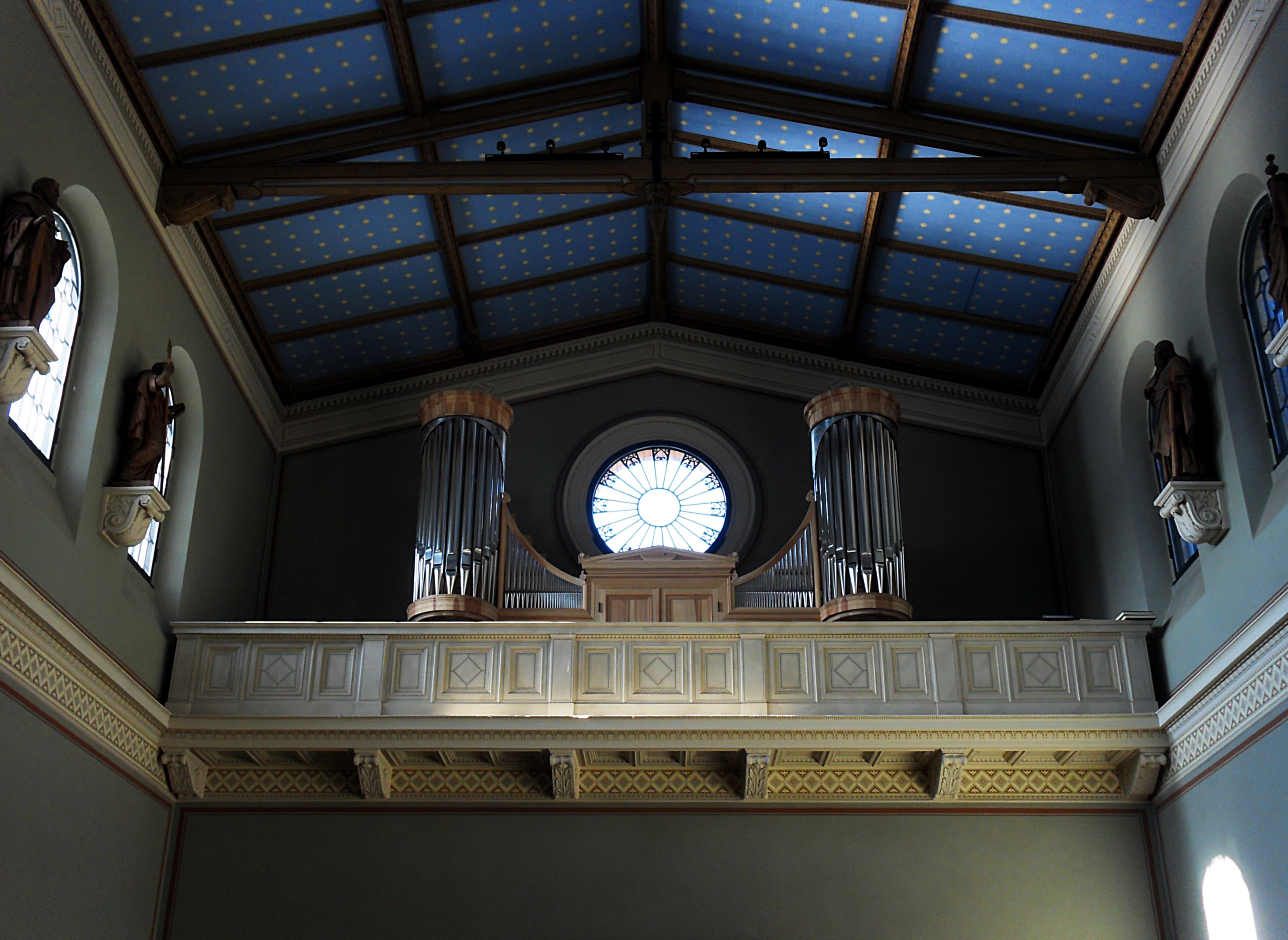 The organ in the church Heilandskirche in Sacrow (Germany, close to Potsdam)